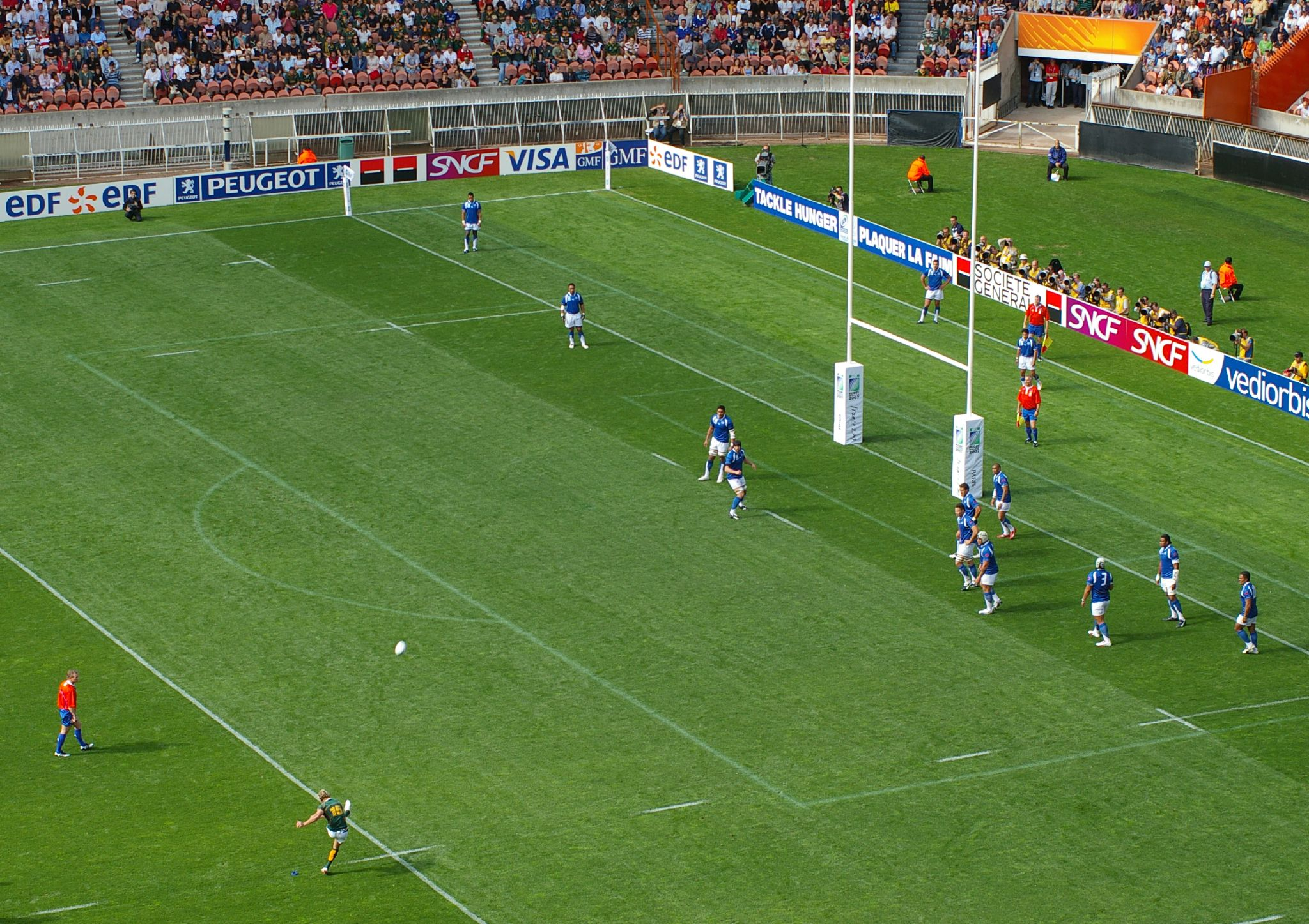 South Africa - Samoa Rugby World Cup 2007 Paris. Parc des Princes